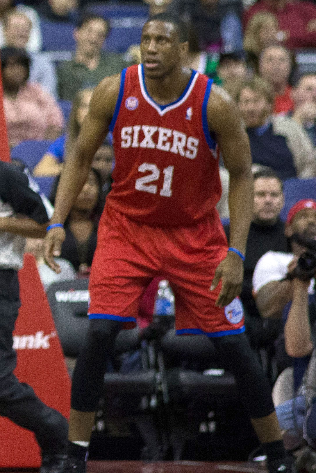 Thad Young, Philadelphia 76ers at Washington Wizards March 3, 2013